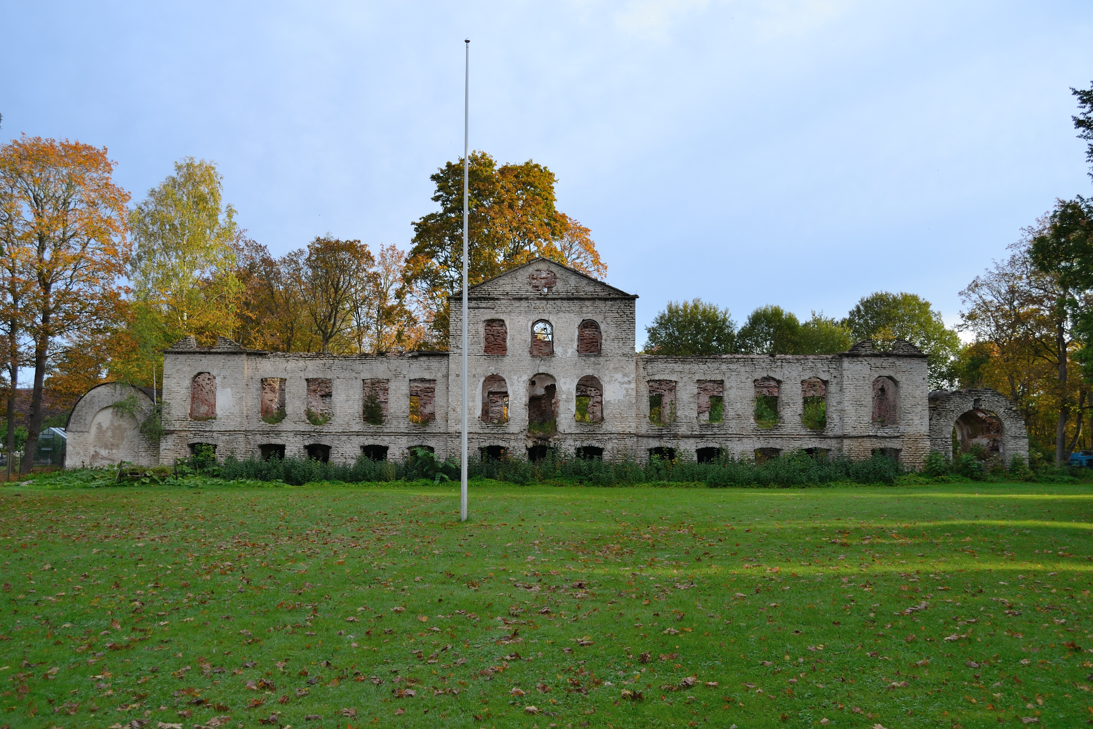 Ruins of Keava manor main building